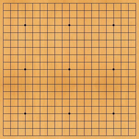 empty 19x19 goban